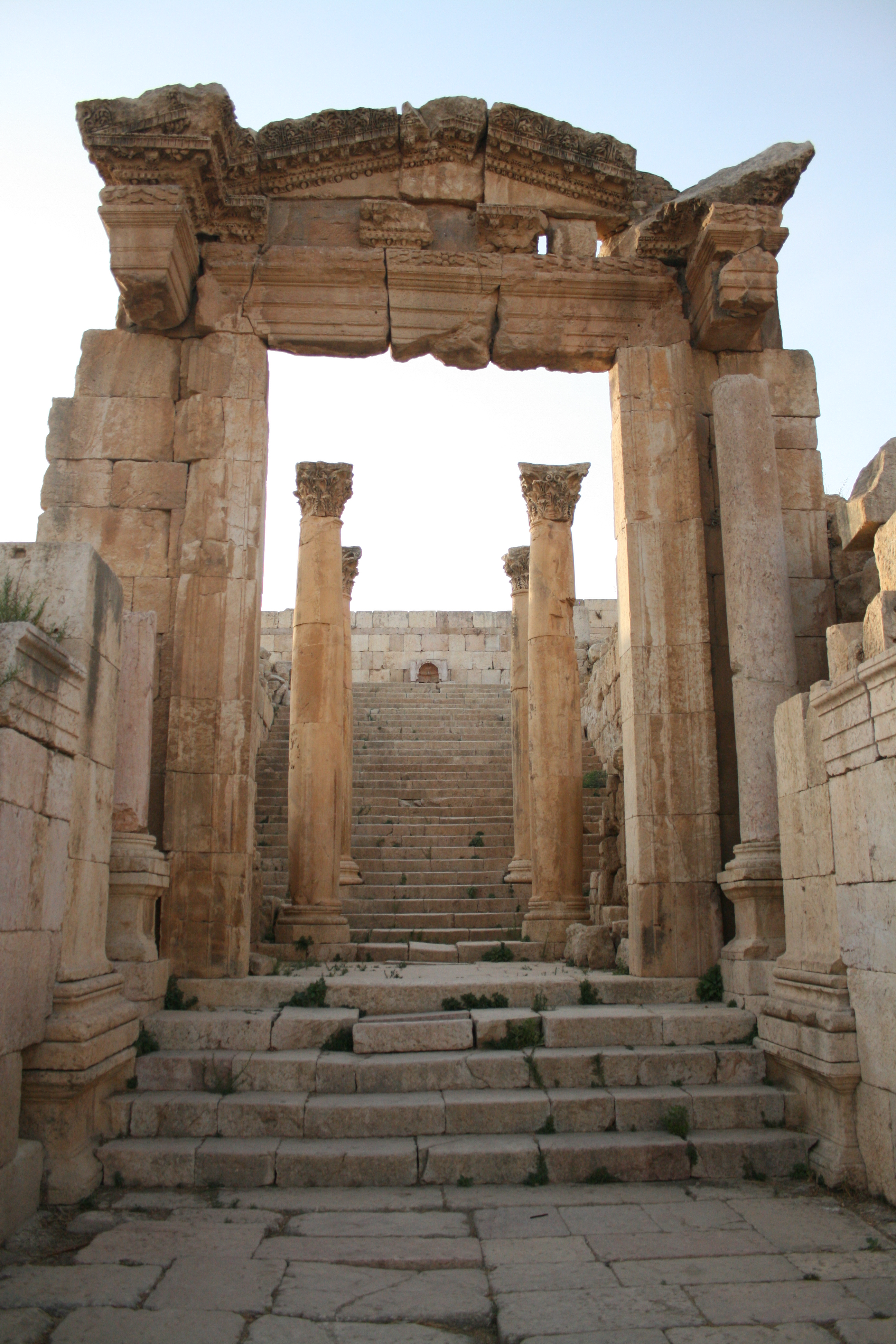 Cardo maximus, Jerash, Jordan